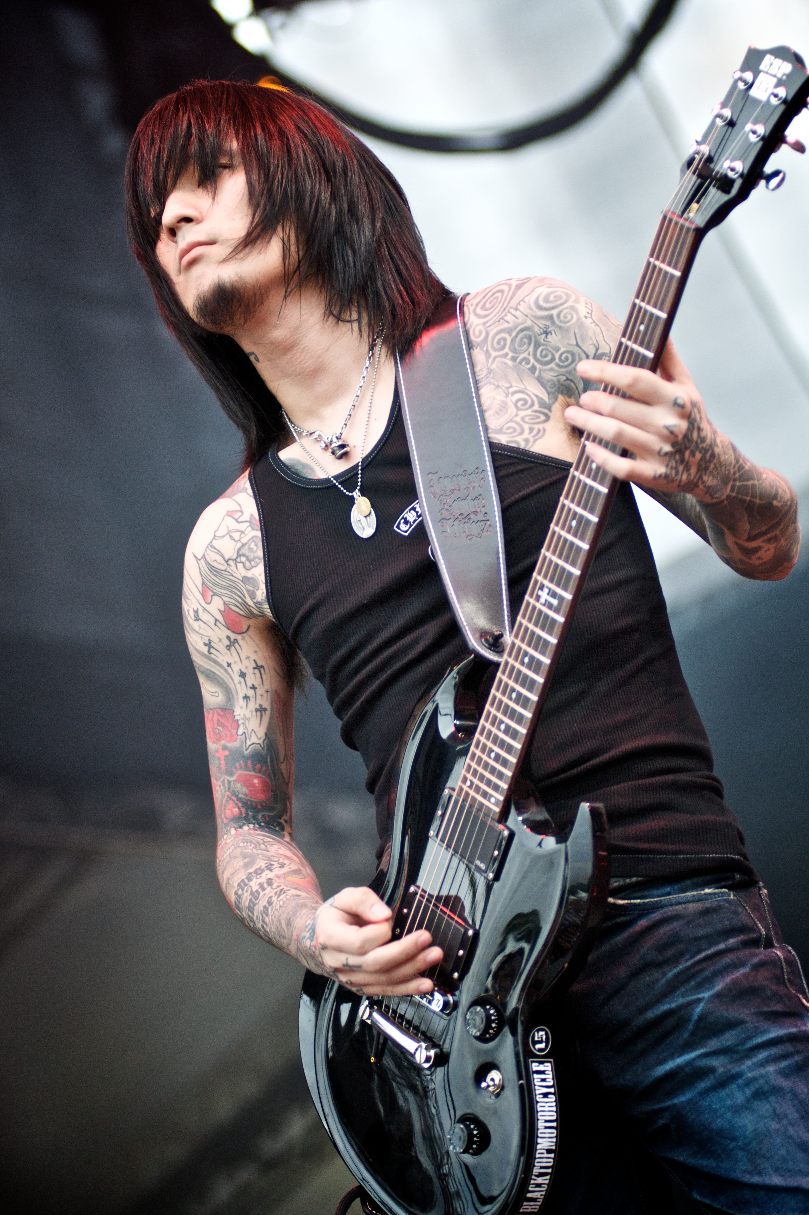 Dir En Grey in Maquinária Festival, occurred in November 8 2009 at São Paulo, Brazil.